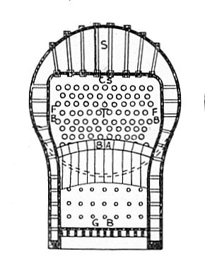 cross sections of round-topped locomotive boiler firebox.